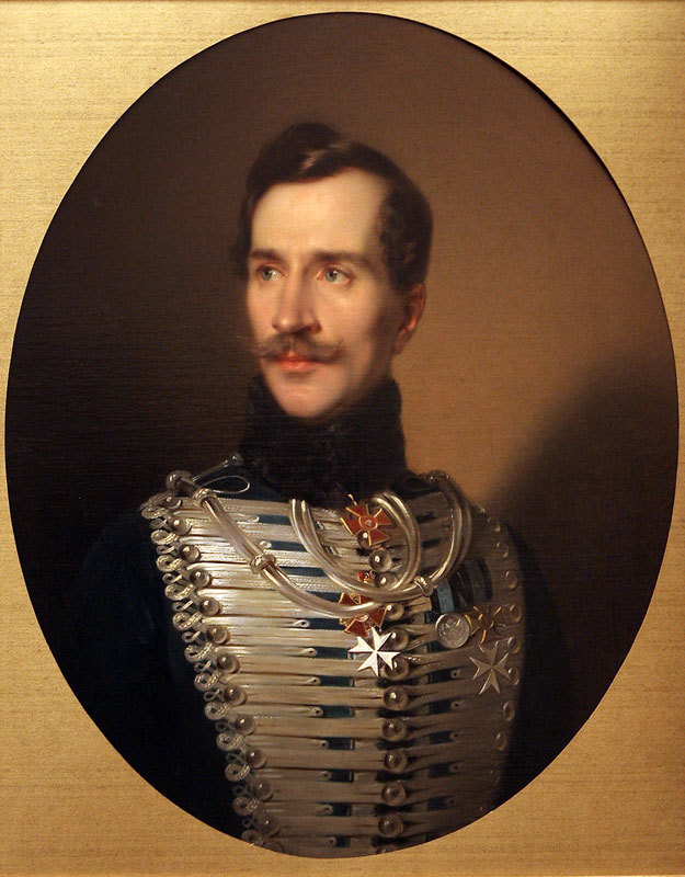 Portrait of Prince Michail Golicyn (1800-1873)